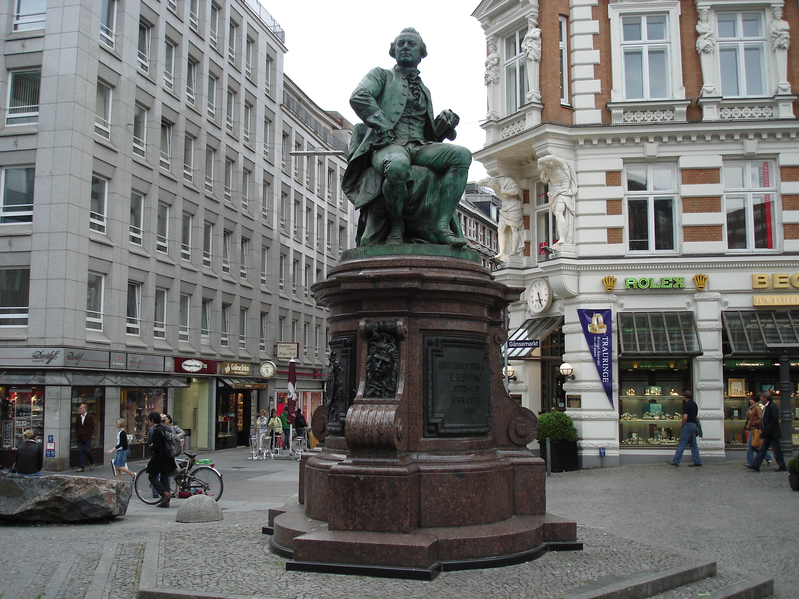 Lessing-Monument in Hamburg